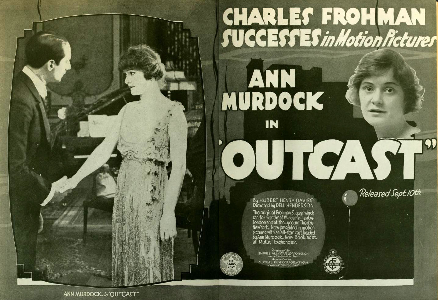 Advertisement in Moving Picture World for the American drama film Outcast (1917).